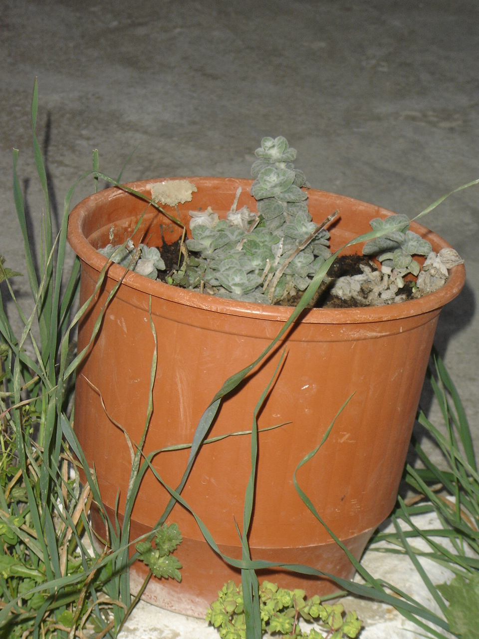 Origanum dictamnus in a pot in Thomadiano, Iraklion Prefecture.